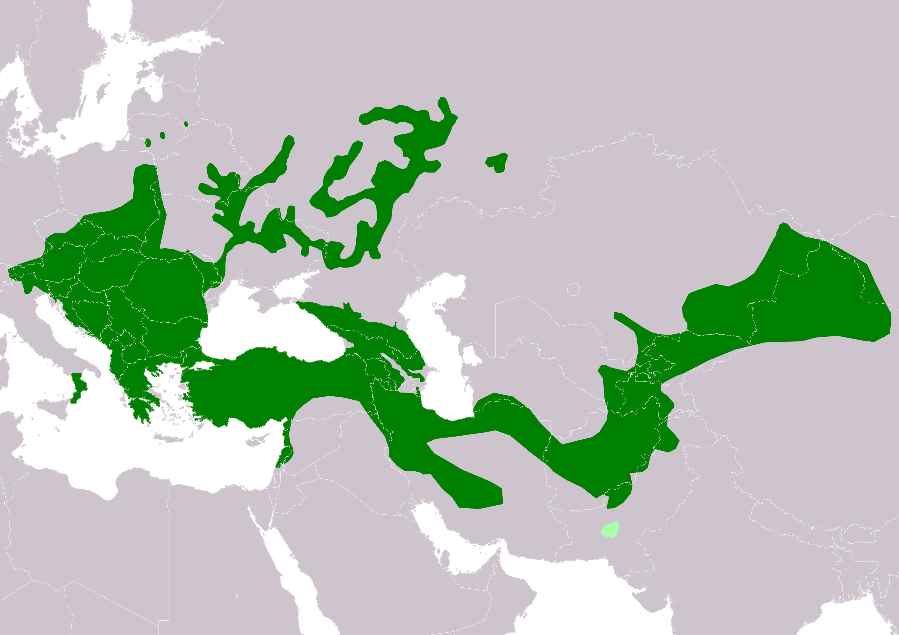 Distribution map of Forest Dormouse (Dryomys nitedula) according to IUCN version 2019.3 , Legend: Extant, resident (#008000) Probably Extant, resident (#AAFFAA)